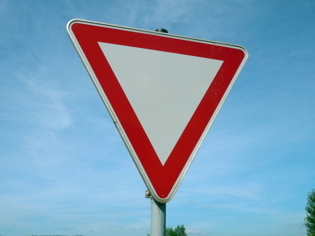 Give way sign without text